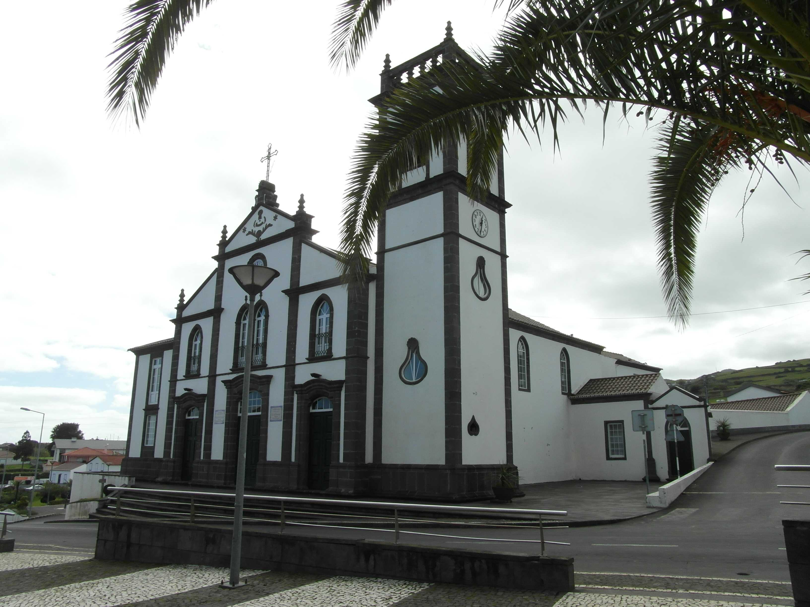 Conceição